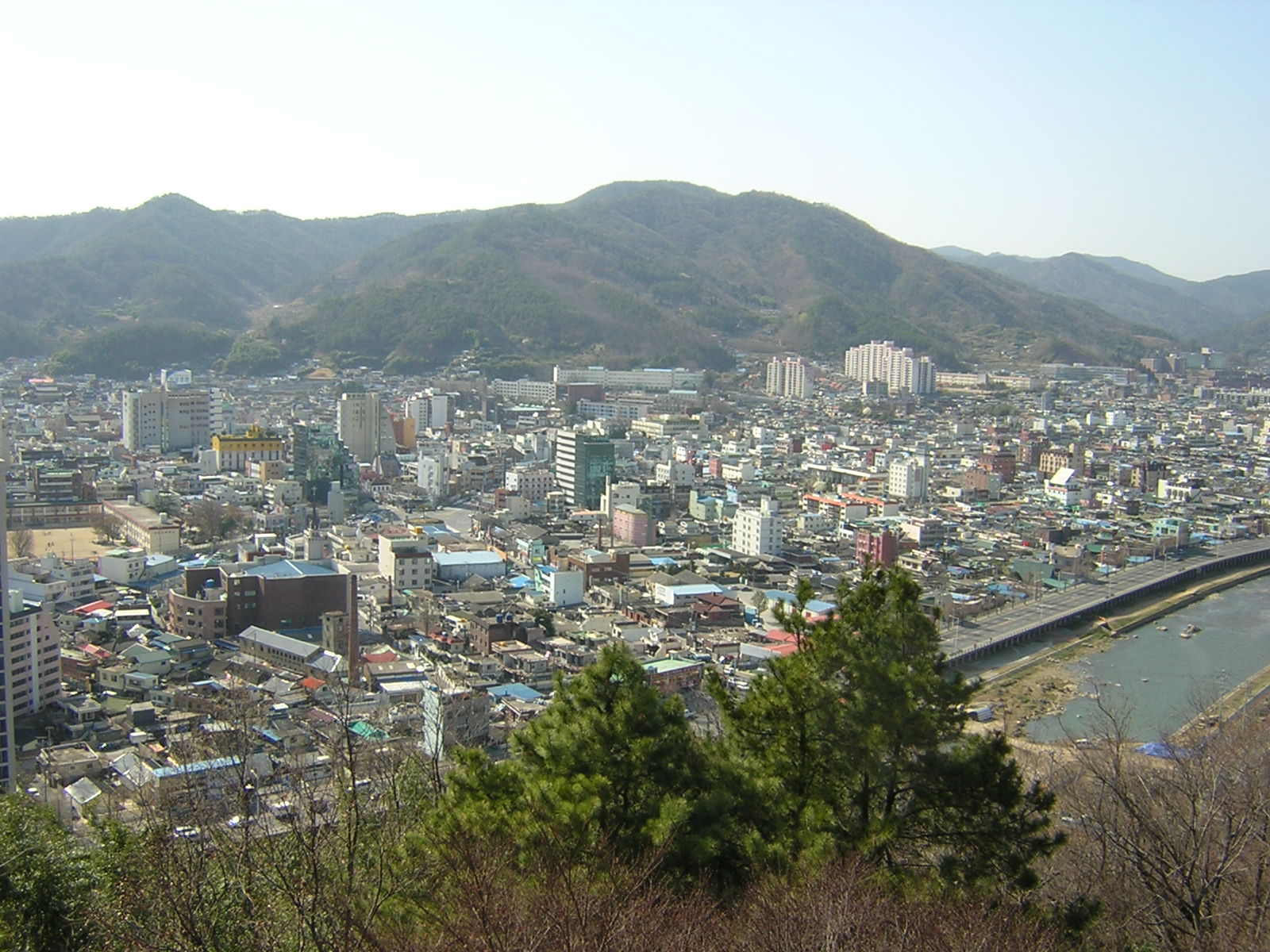 Photograph of the downtown region of Suncheon city taken from a small mountain behind the city centre in May 2005.